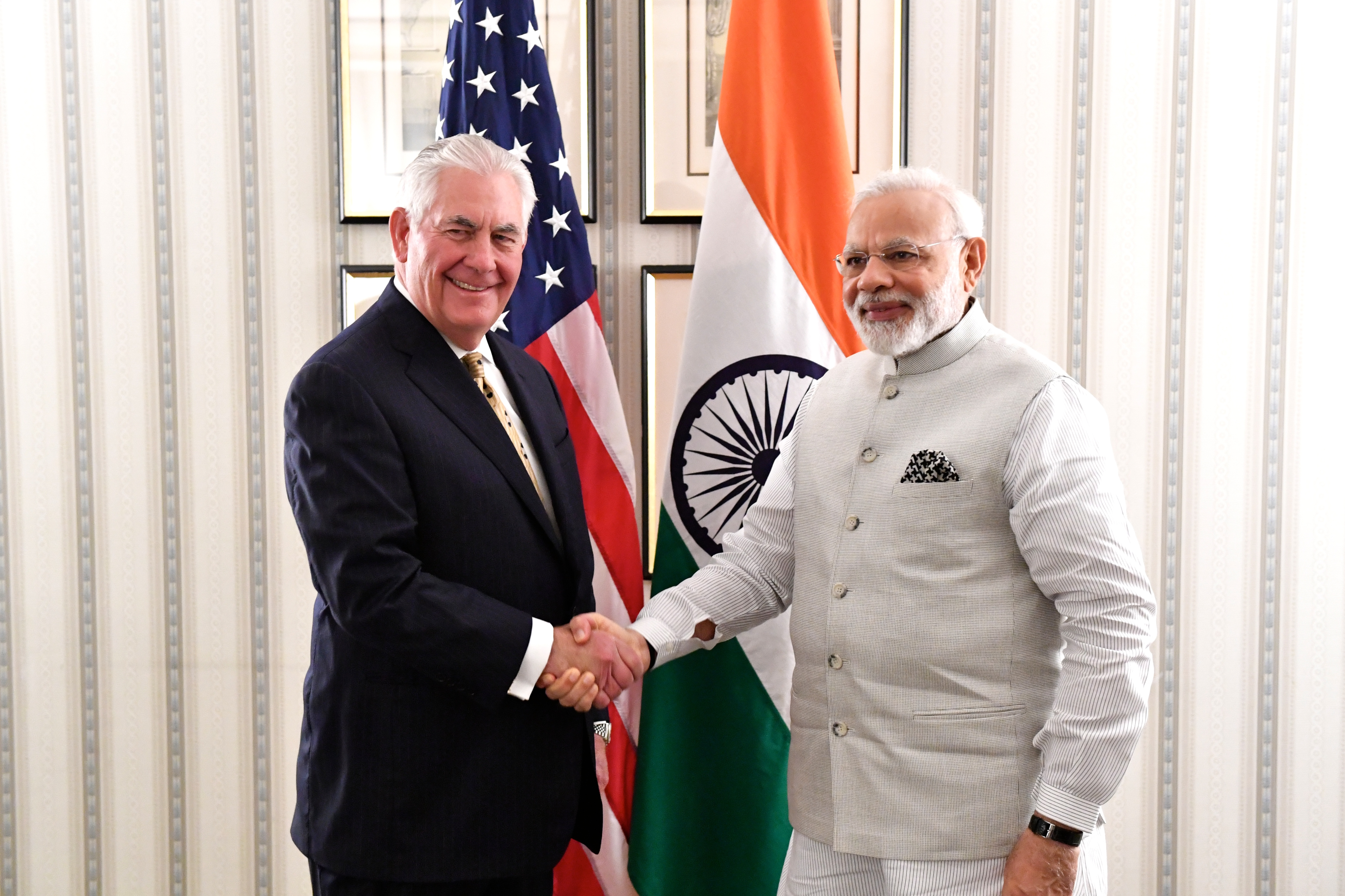 U.S. Secretary of State Rex Tillerson meets with Indian Prime Minister Narendra Modi in Washington, D.C., on June 26, 2017. [State Department photo/ Public Domain]